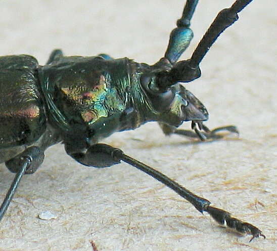 Musk beetle (Aromia moschata); mandibule close up.